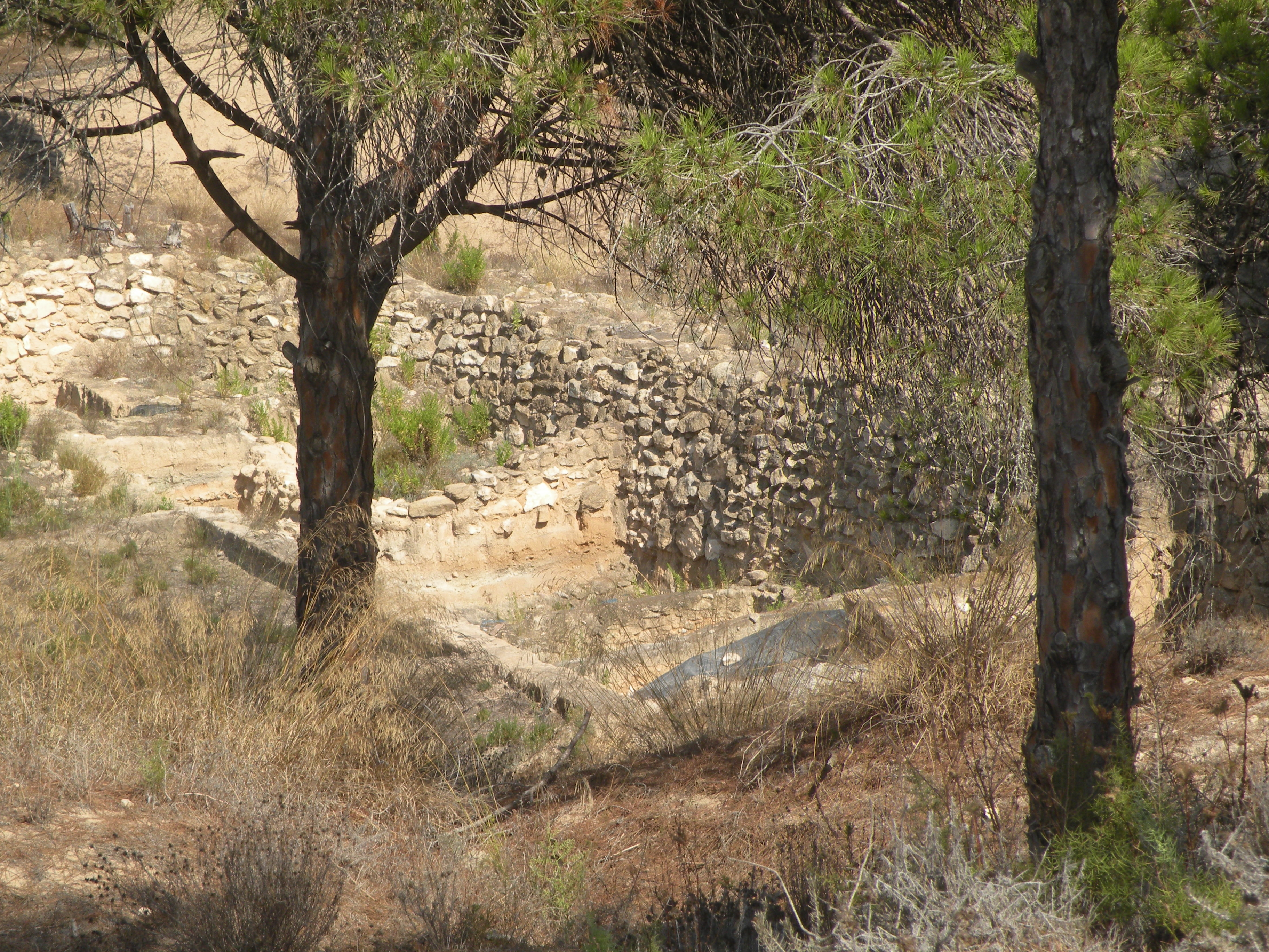 La Fonteta (Guardamar, Spain) Ruins of a phoenician city